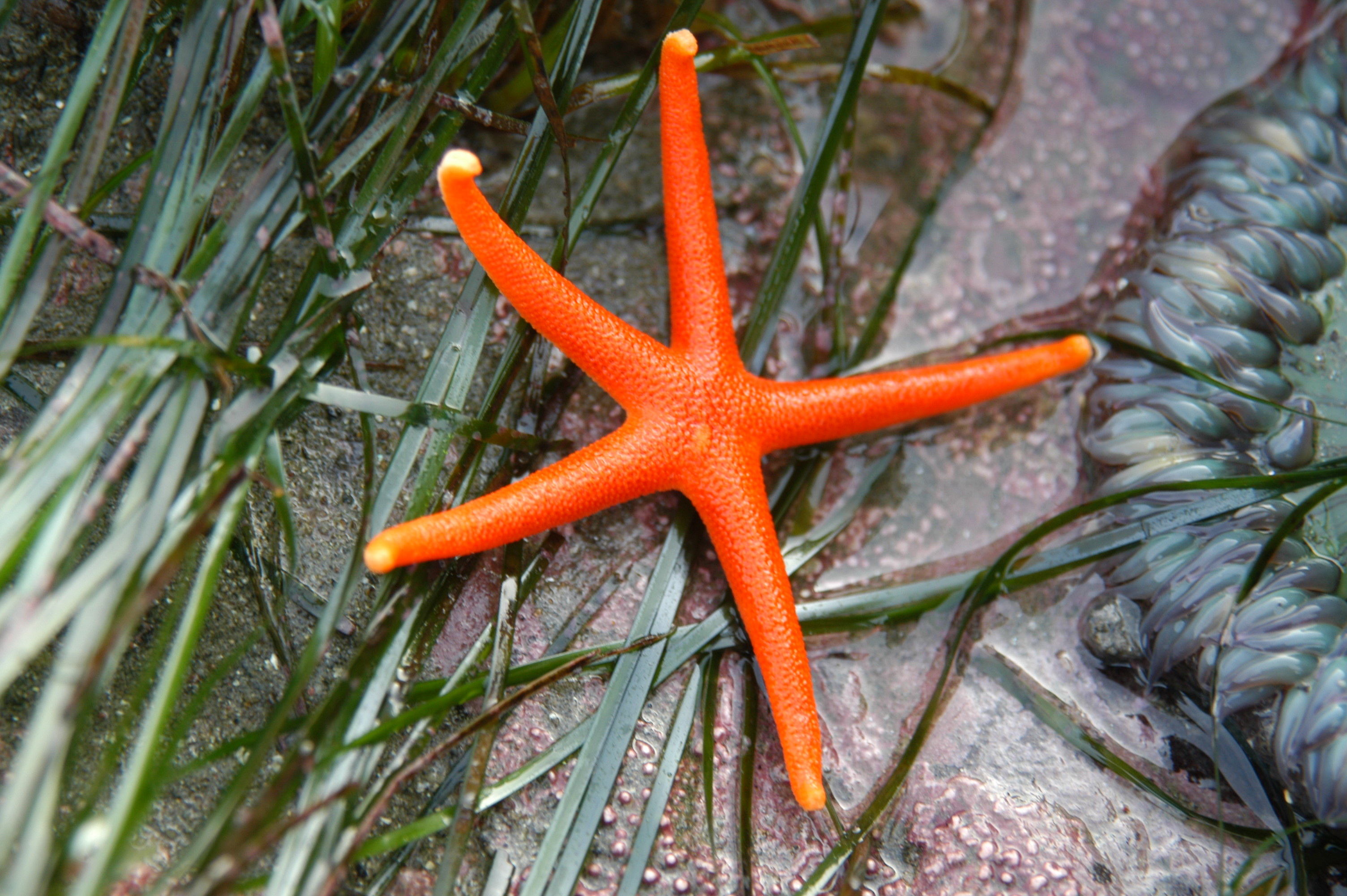 This star varies in colour from blood red to tan, yellow, orange and purple. The vivid colour is why it is taken home, but it will soon fade when it dries, so only take a picture and leave the sponge eating animal for others to enjoy.